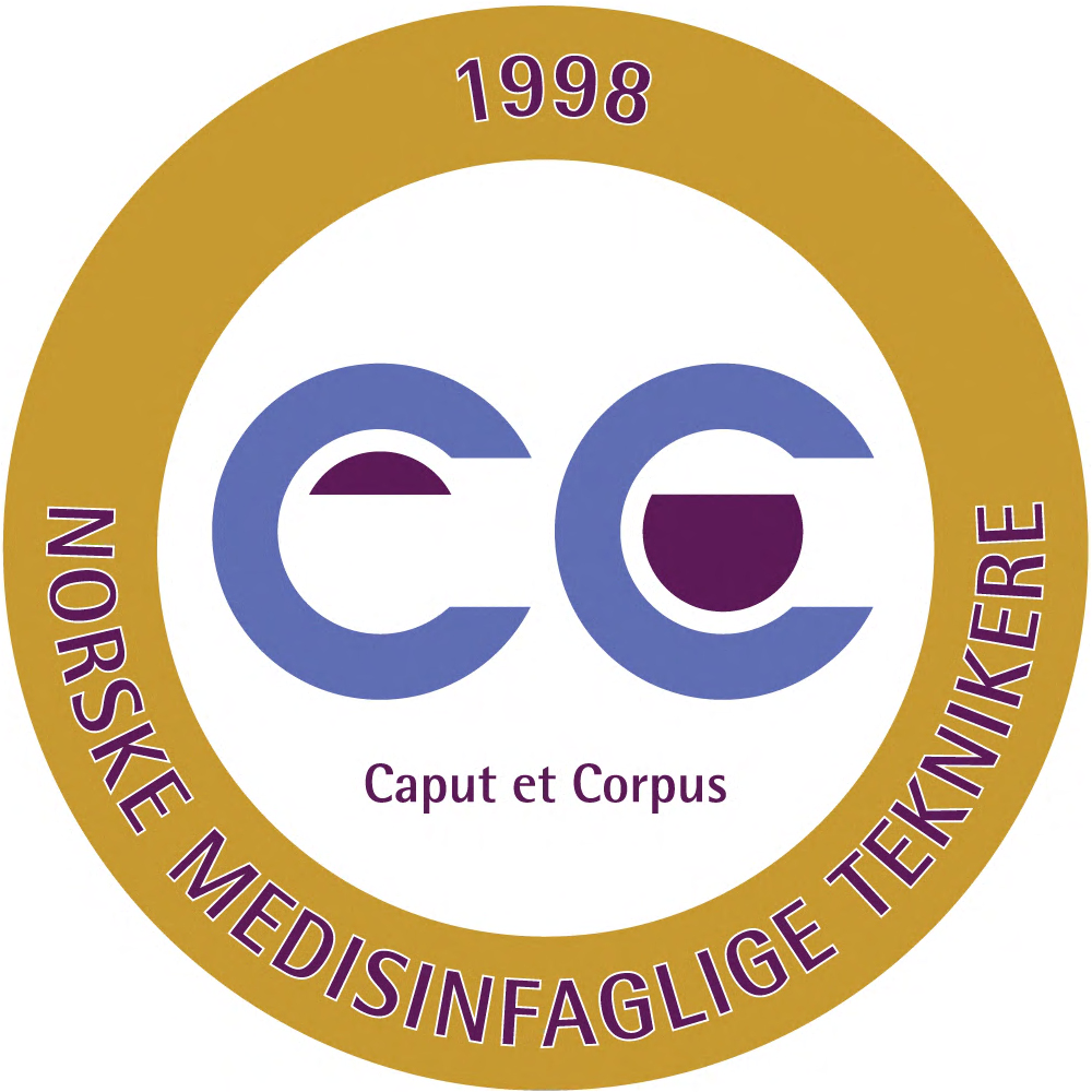 Delta